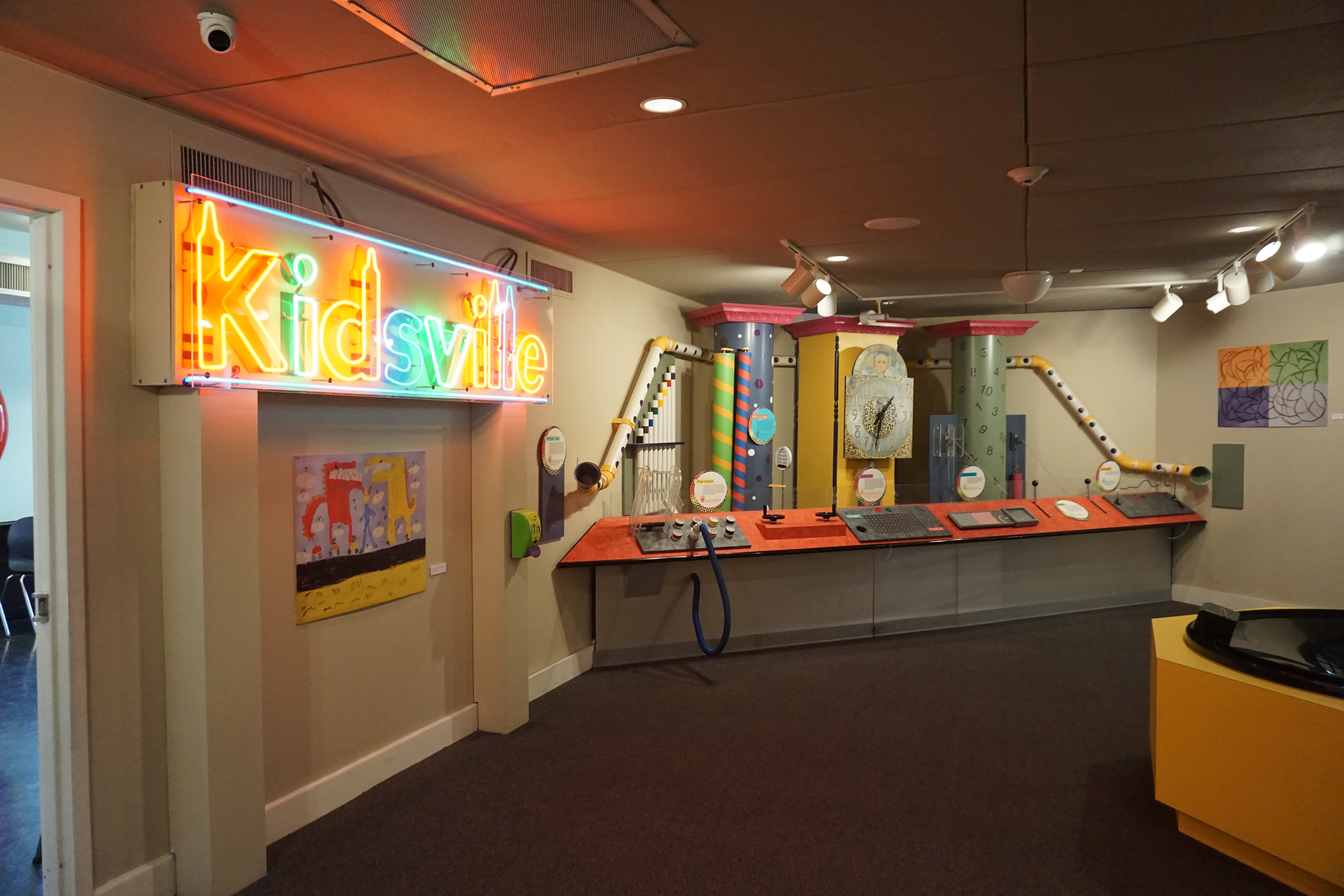 The Children's Museum at The Grace Museum in Abilene, Texas (United States).